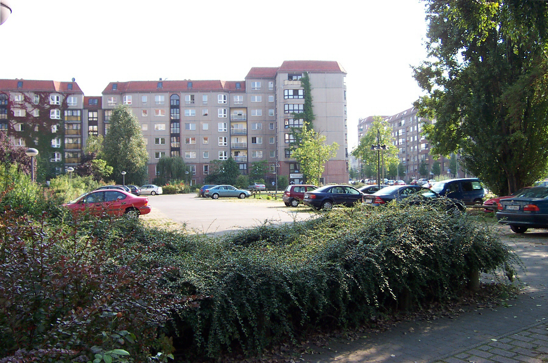 Self-created 24 Sep 2005